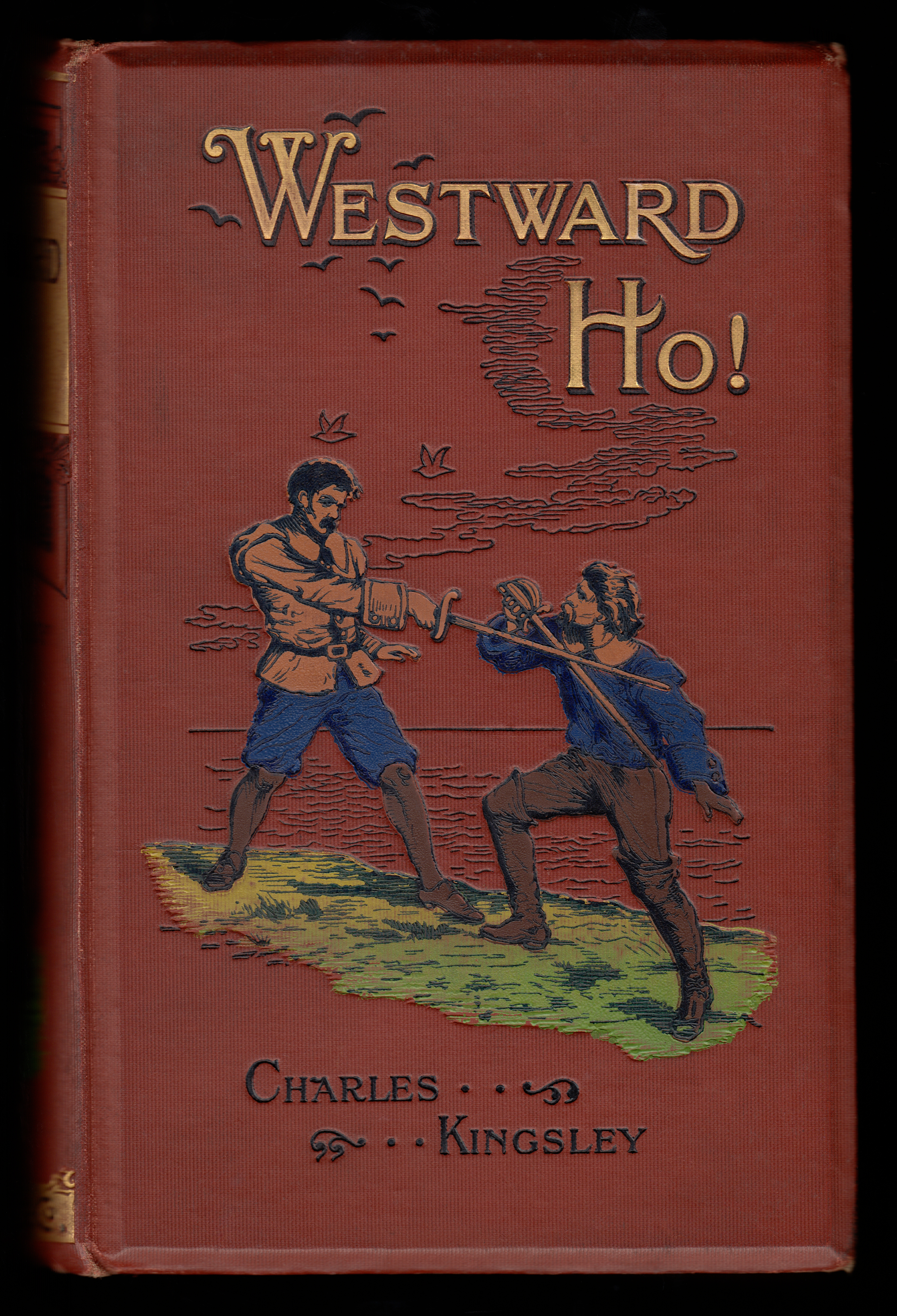 Cover to Westward Ho! by Charles Kingsley. Per suggestion, I'll be restoring from File:Charles Kingley - 1899 Westward Ho! cover 2 - Original.tif instead of this one.